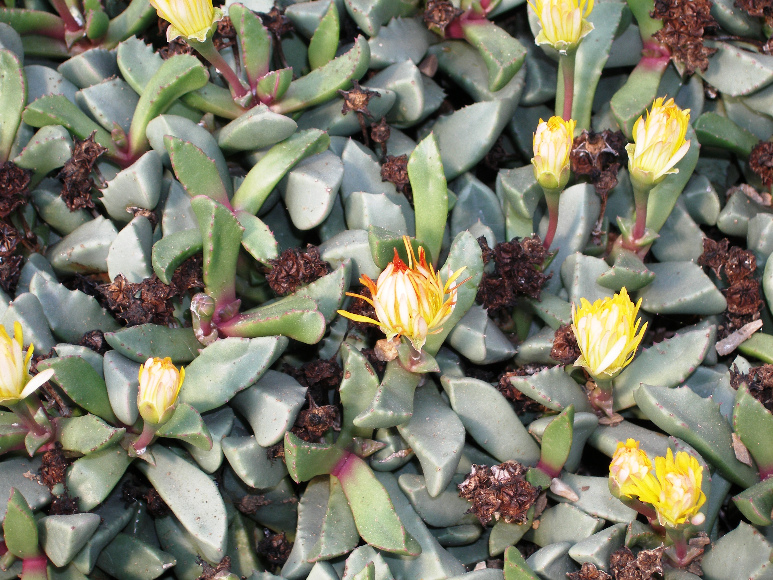 Specimen in cultivation at the Royal Botanic Gardens, Kew, United Kingdom.